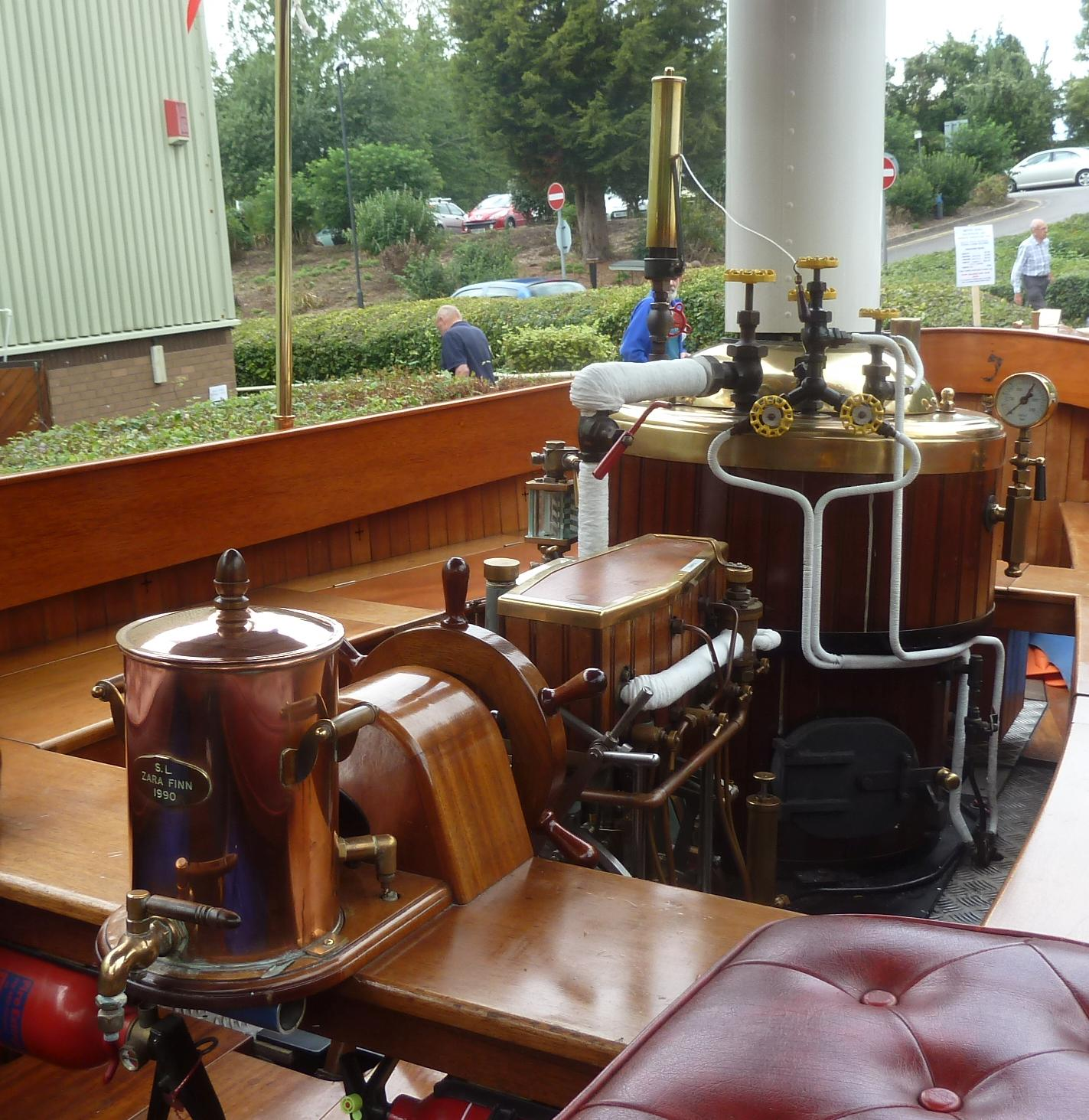 Windermere kettle in the steam launch Zara Finn At the 2015 Bristol Model Engineer show, Thornbury.